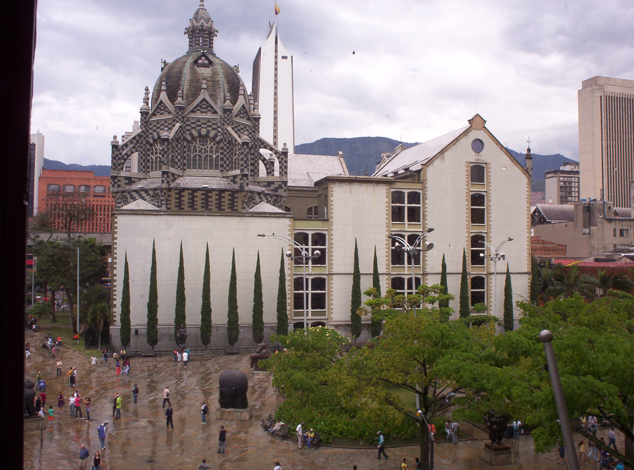 Plaza/Parque Botero, Medellin Colombia